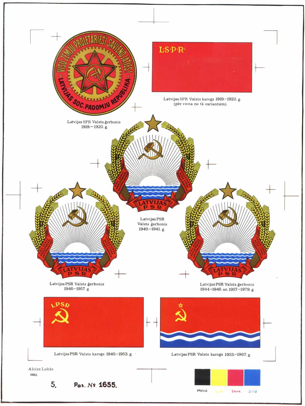 A poster containing historical flags and coat of arms of the Latvian SSR.